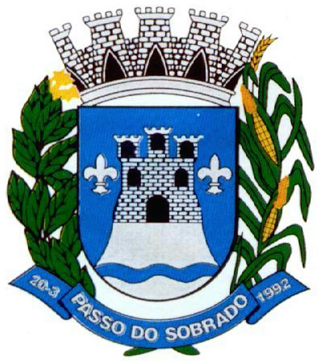 Coat of arms of the city of Passo do Sobrado, Rio Grande do Sul, Brazil.